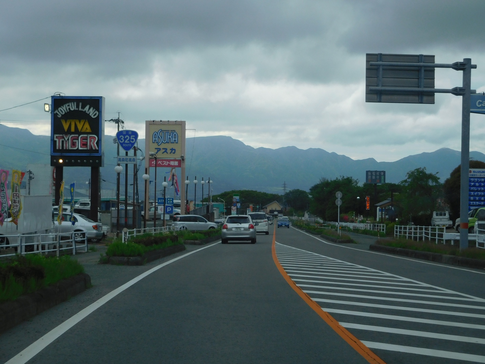 "National Route 325" at Central Takamori Town, Kumamoto Prefecture, Japan.